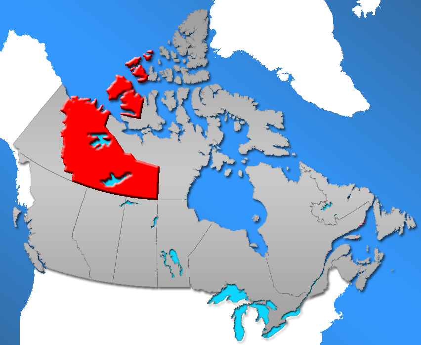 Northwest Territories in Canada